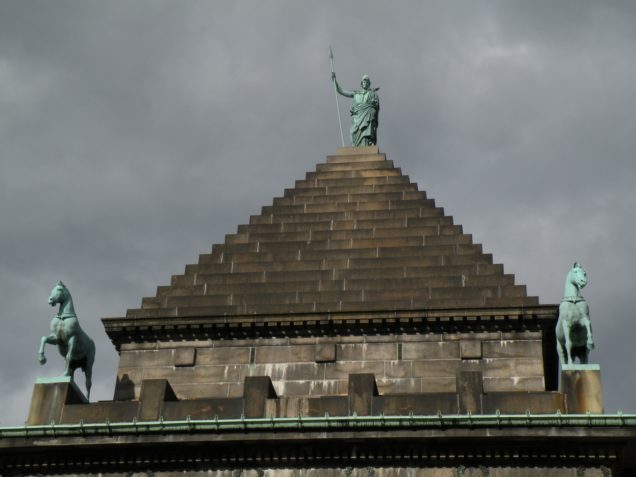 The pyramid roof of the Hack Kampmann wing of the Ny Carlsberg Glyptotek in Copenhagen, Denmark